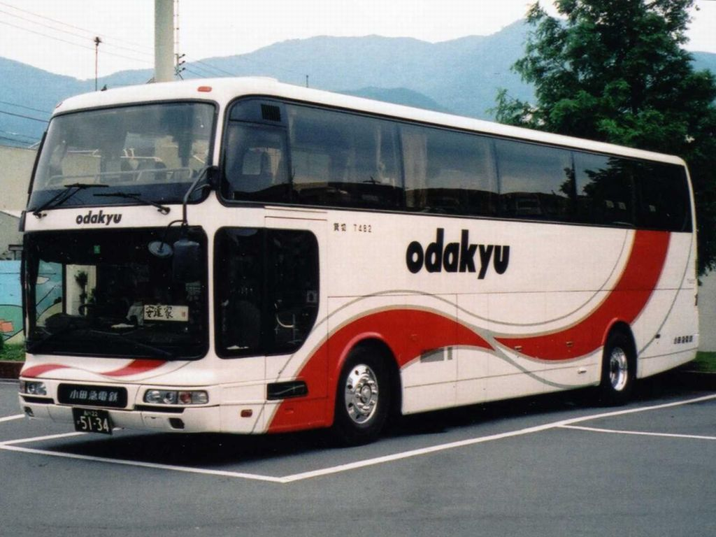 Odakyu Hakone Highway Bus 7482 Mitsubishi KC-MS822P at Gotemba City